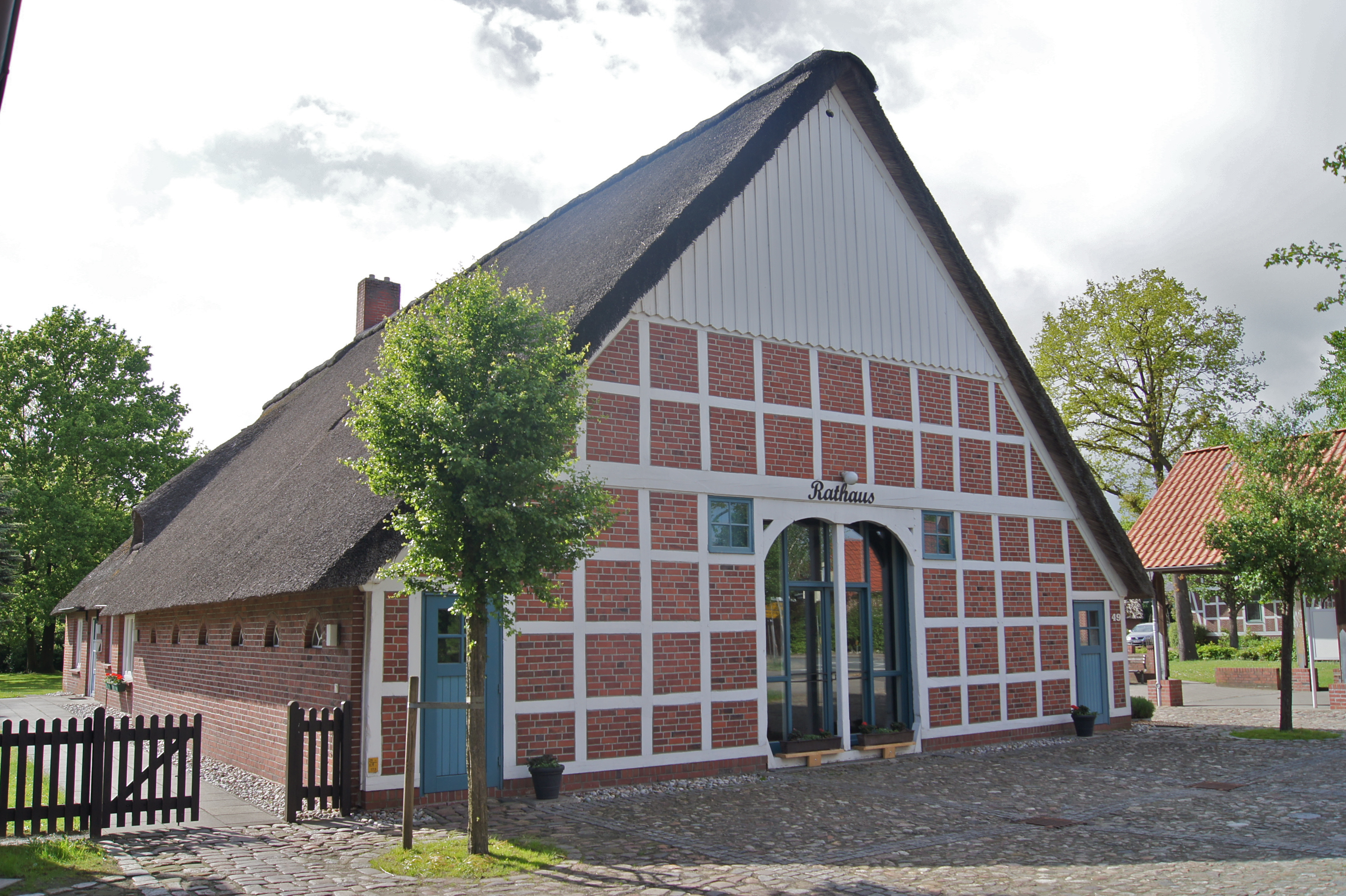 Hammah, Germany: Town hall